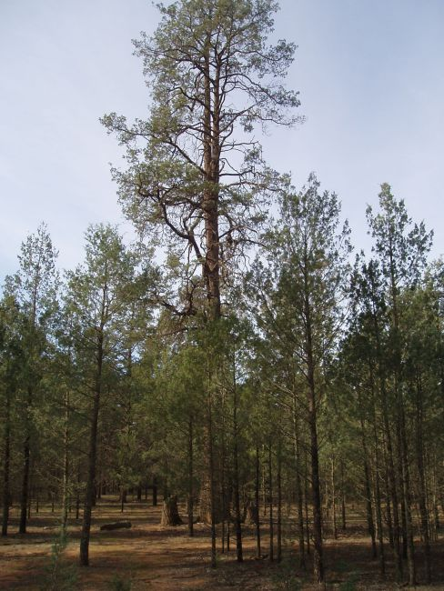 Savernake Station: 400 year old tree surrounded by its children in nature reserve at Savernake